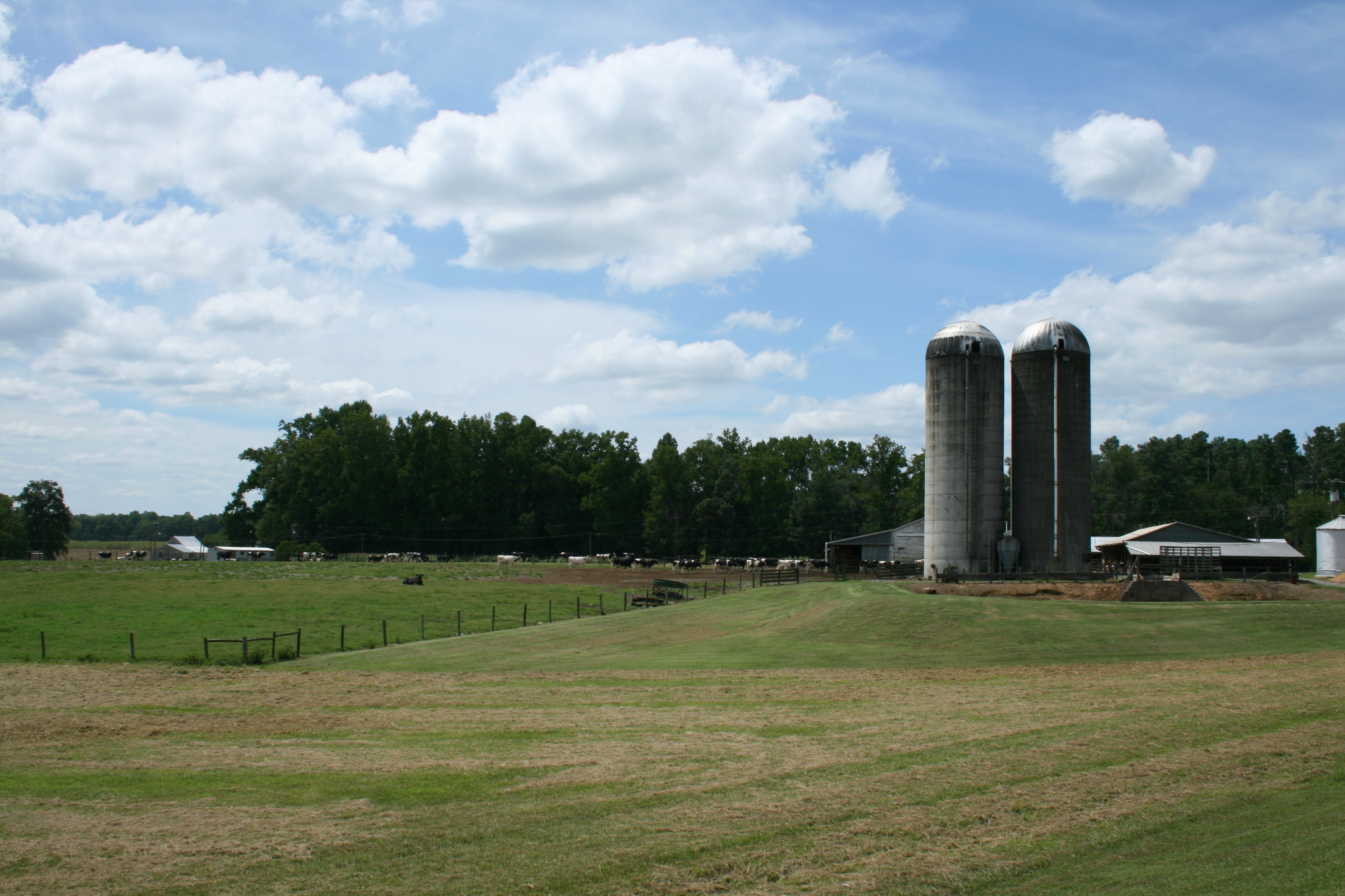 A farm seen from North Carolina Highway 54 in White Cross, North Carolina.